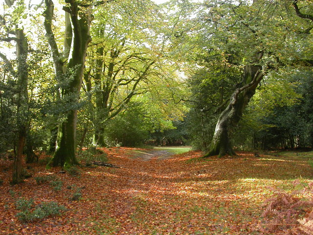 New Forest Path, James's Hill This part of the Forest is mainly beech and holly. The beech trees have started to shed their leaves; golden leaf litter lies on the ground on a fine autumnal day.